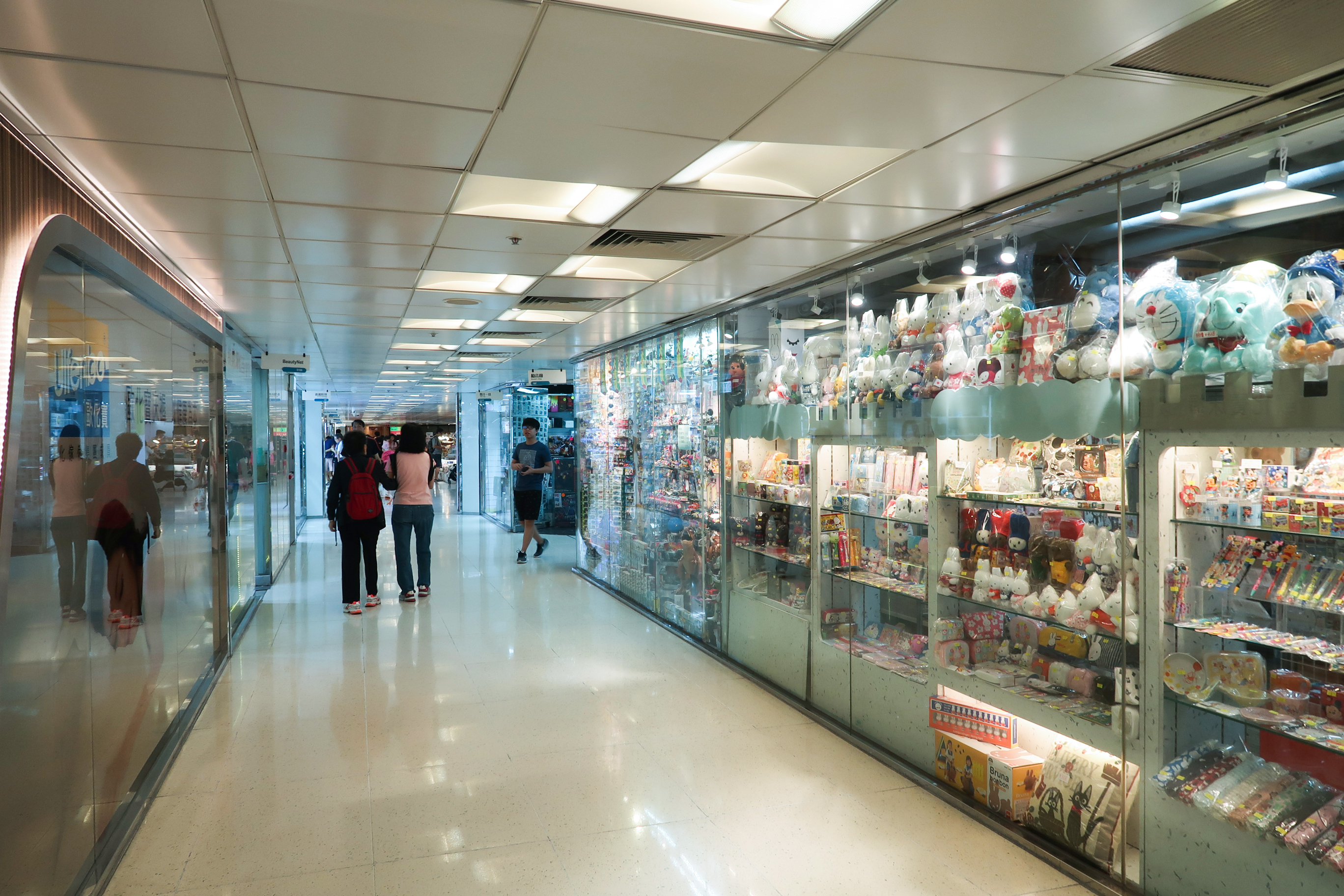 Amoy Plaza Level 2 shops